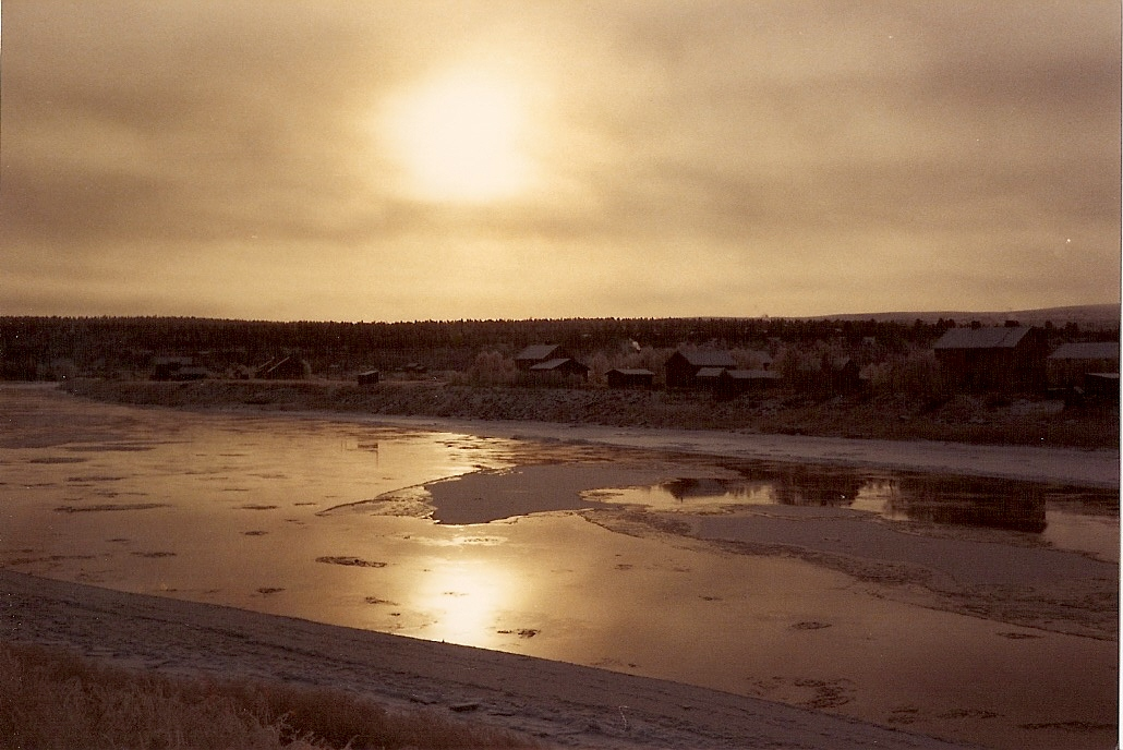 River Karasjokka in Northern Norway